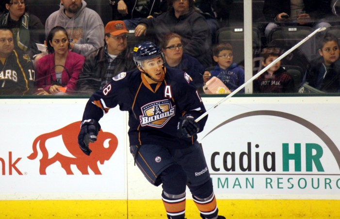 Jonathan Cheechoo of the Oklahoma City Barons